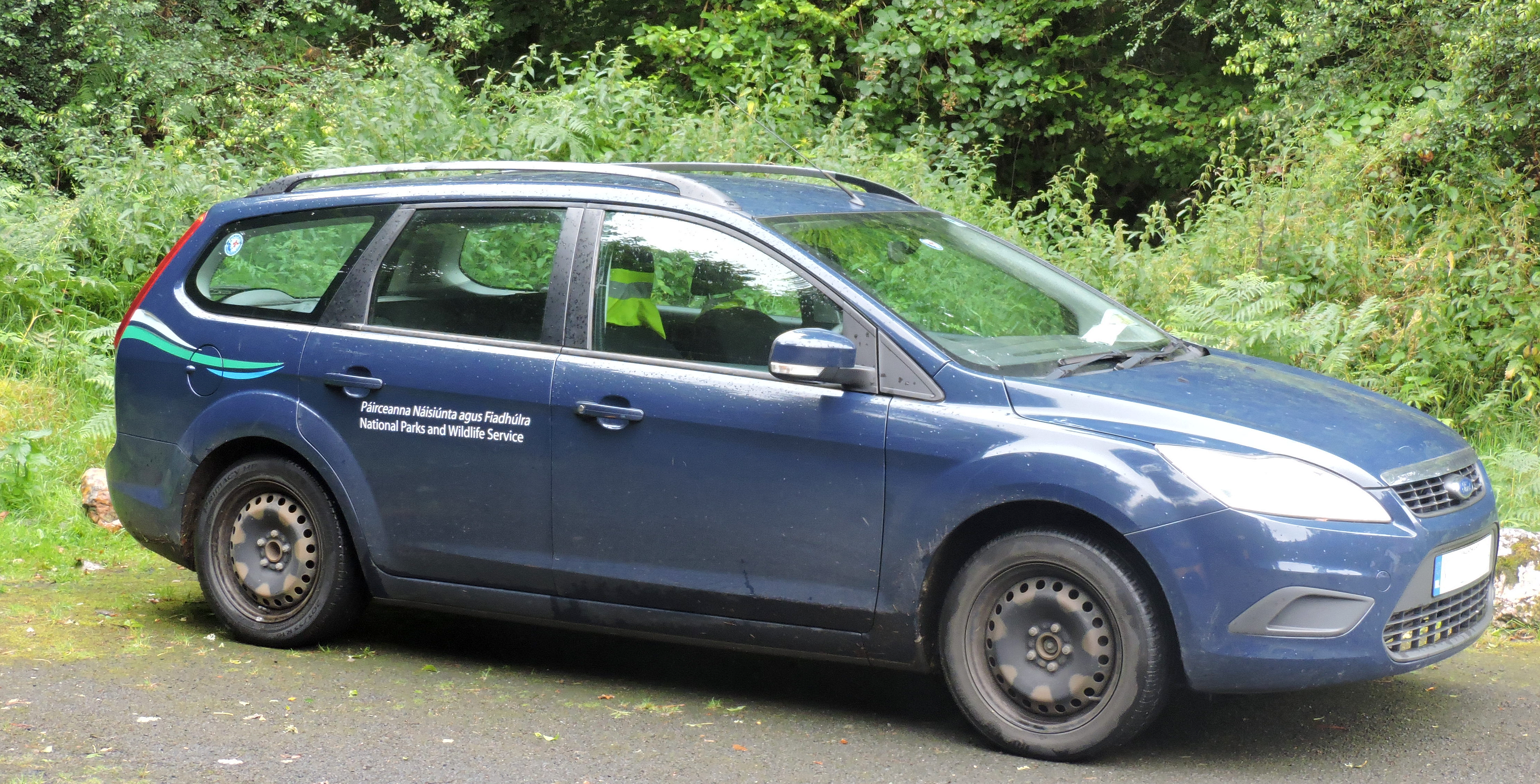 Irish National Parks and Wildlife Service business car (Wicklow Mountains National Park)